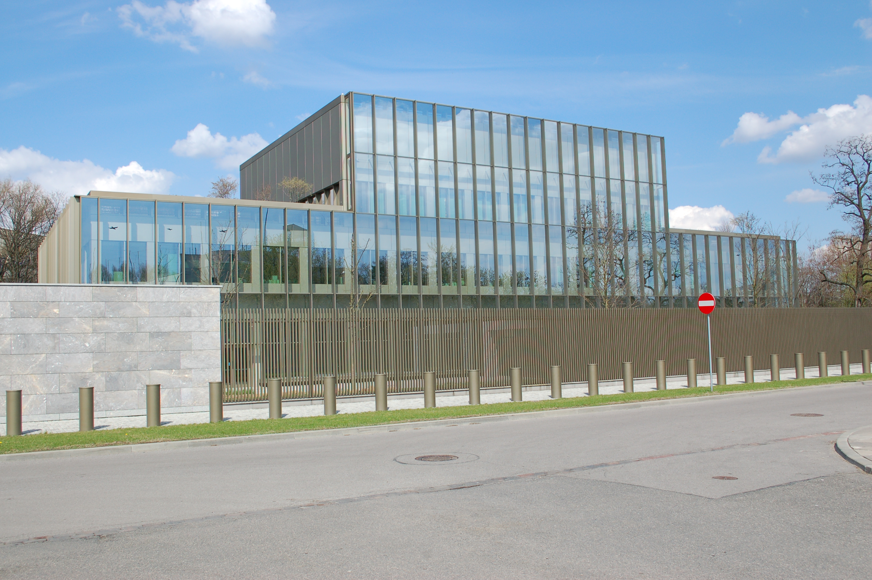 Kawalerii Street in Warsaw